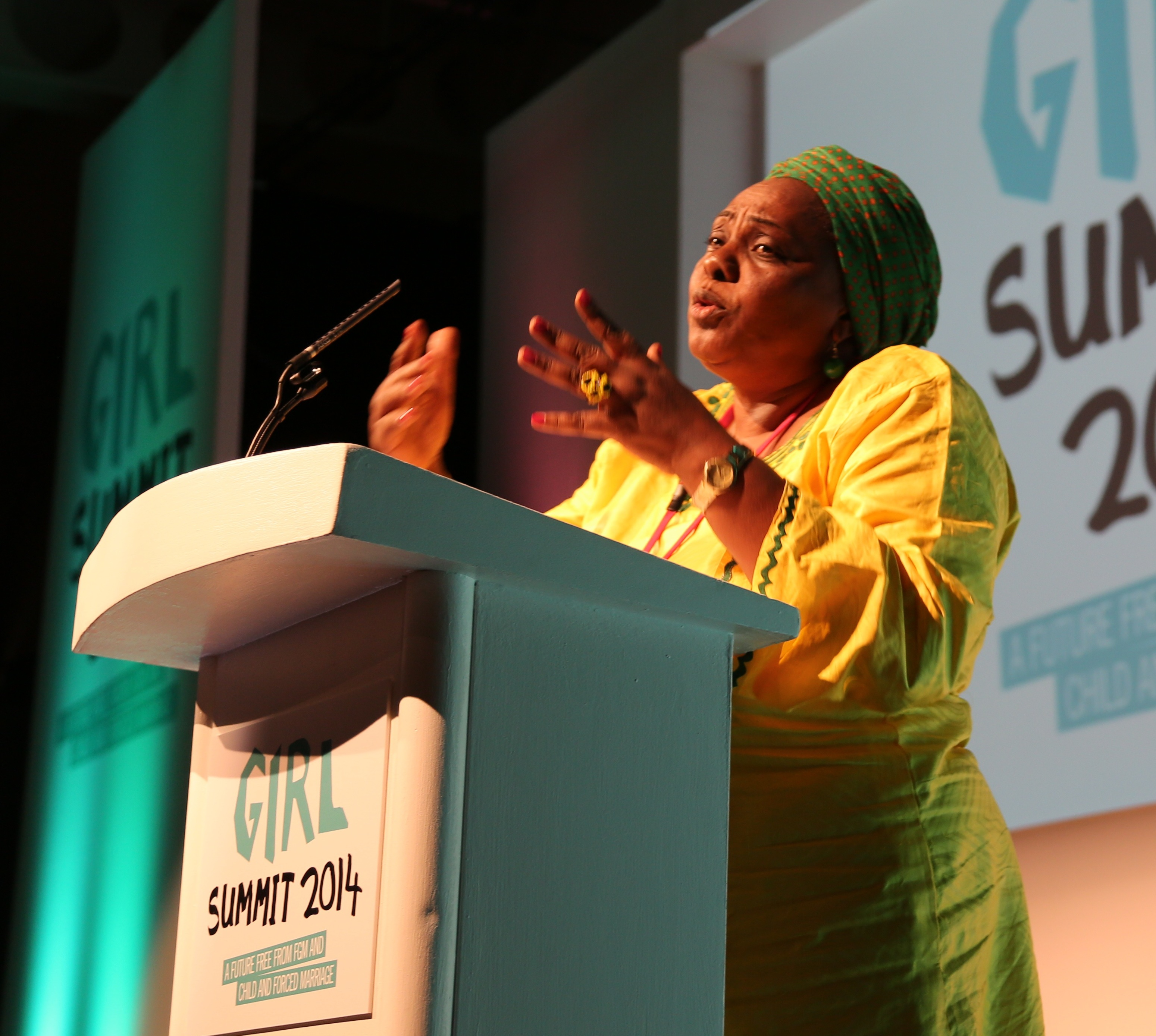 Mary Karooro Okurut, Uganda's Minister of Gender, Labour and Social Development, at Girl Summit 2014, London